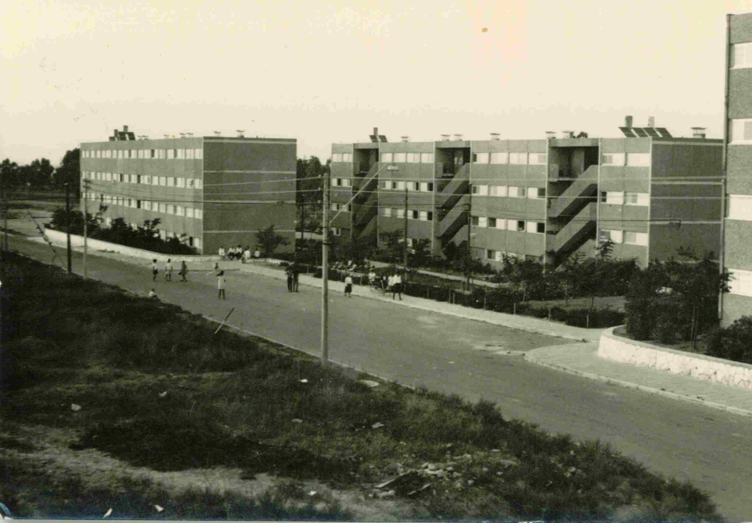 The first buildings on Alfasi street. The buildings on the right and left do not exist today